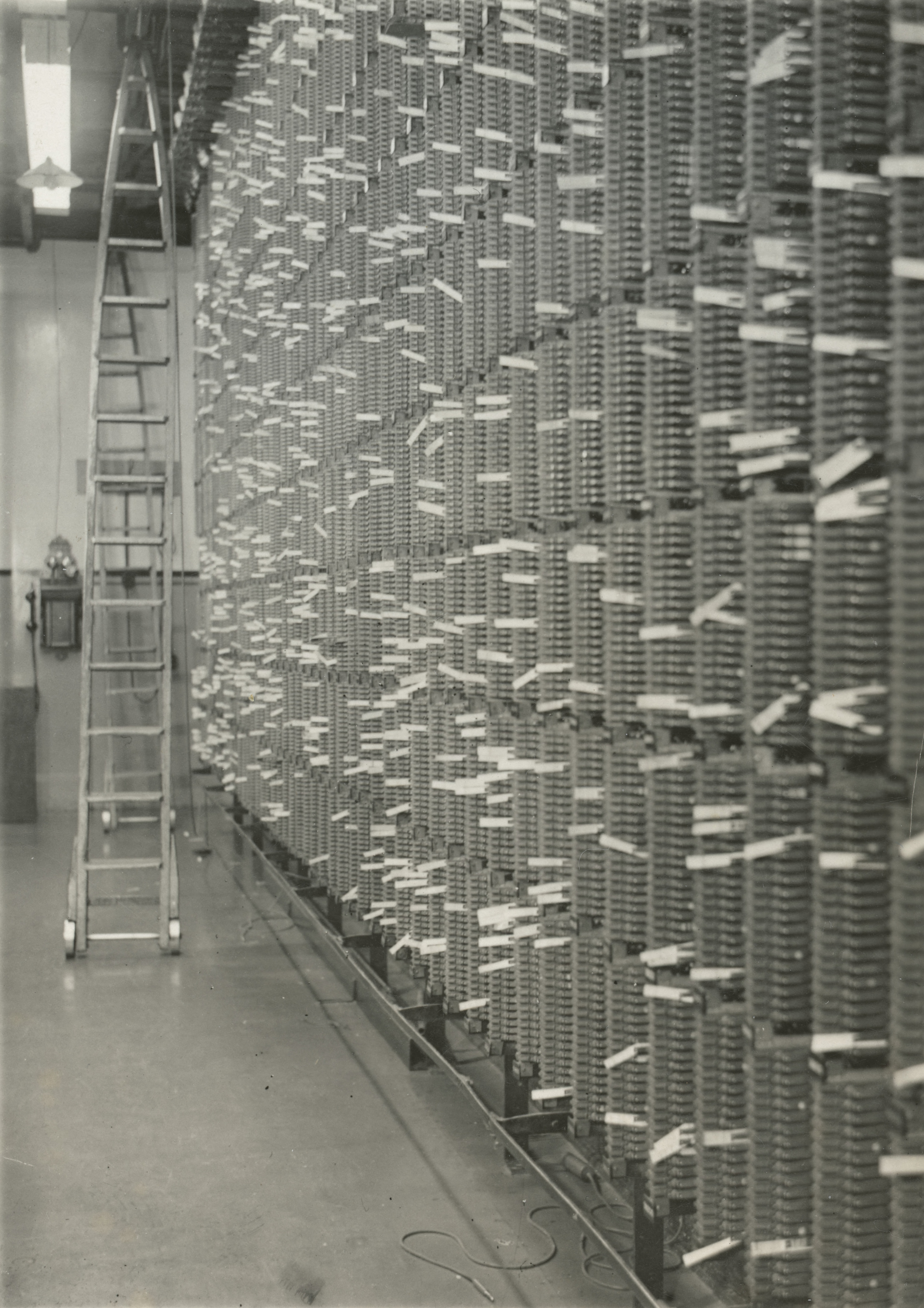 Main distribution frame of the telephone exchange, Christchurch Central Post Office. Photograph taken circa 1952, before 1954. Photographer unidentified.